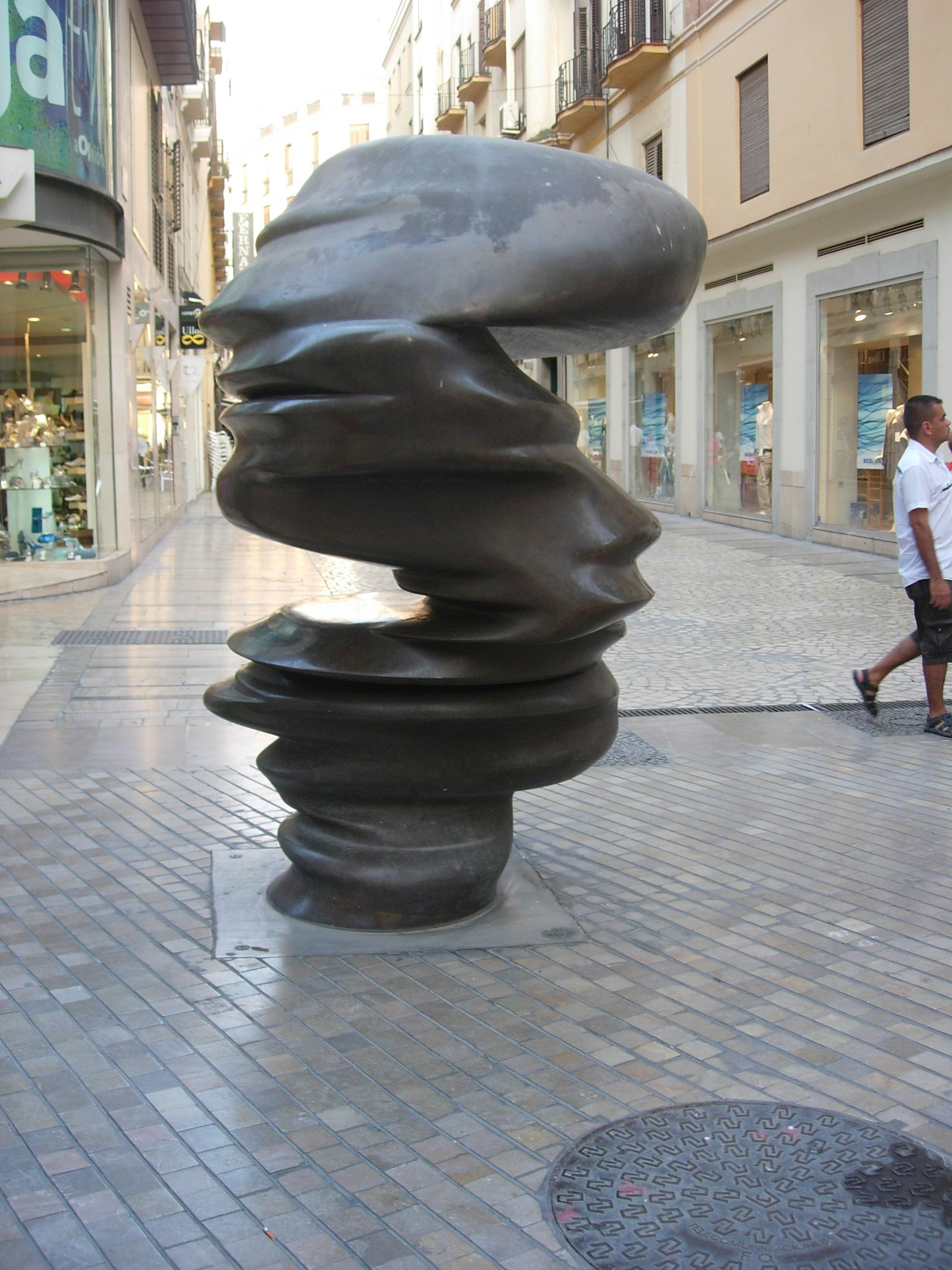 Points of View, by Tony Cragg, Málaga, Spain.